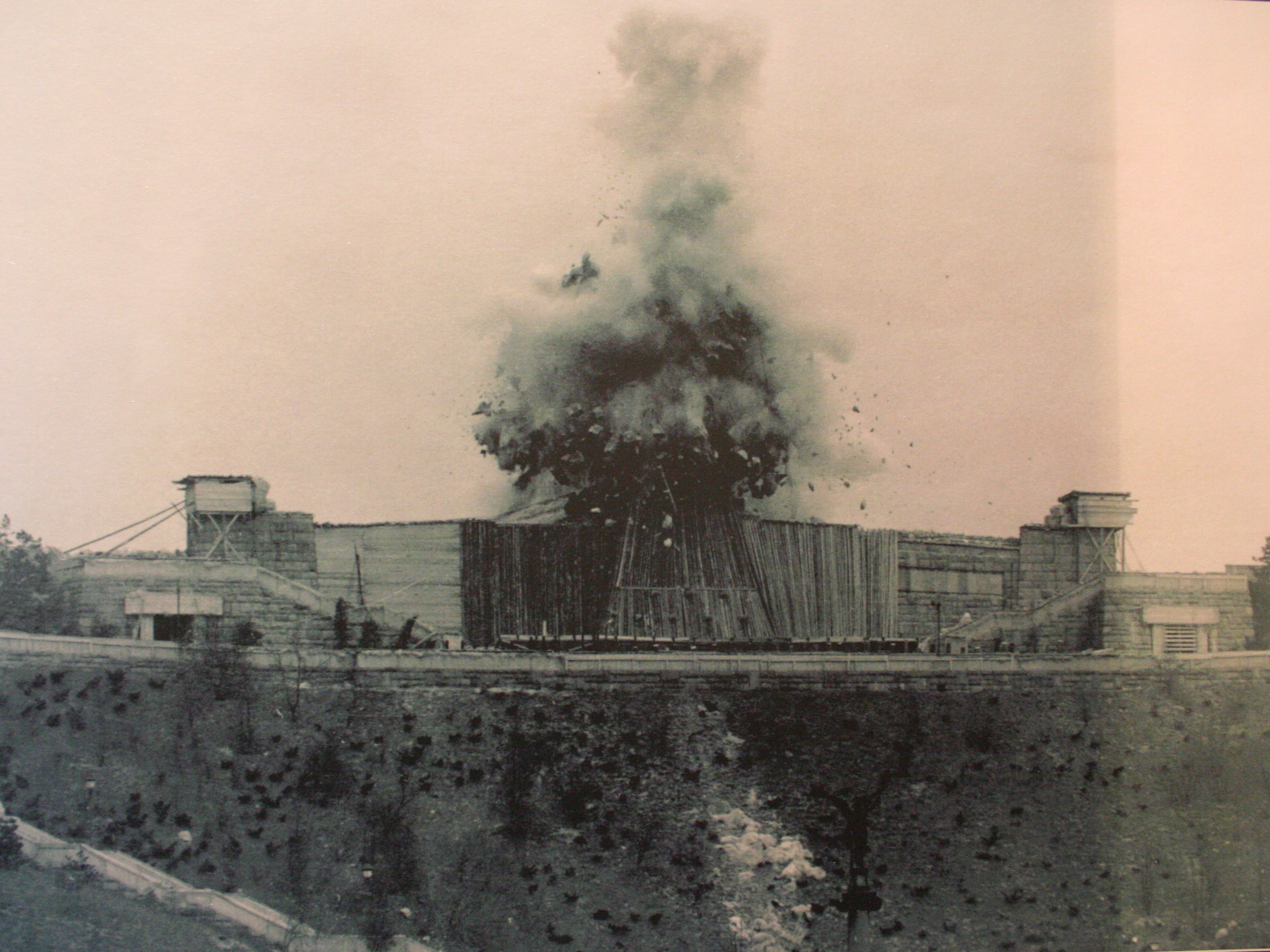 In 1956, Krushchev revealed that the beloved dictator had been a bit of a tyrant and the monument became something of an embarrassment to the Czech government. Its presence, towering over Prague, became increasingly incongruous and after years of prevarication the government made a decision. In 1962 the order was given for its demolition with the instruction: "destroy it without too much of a bang. Its destruction should be quick and seen by as few people as possible". So, they blew it up...